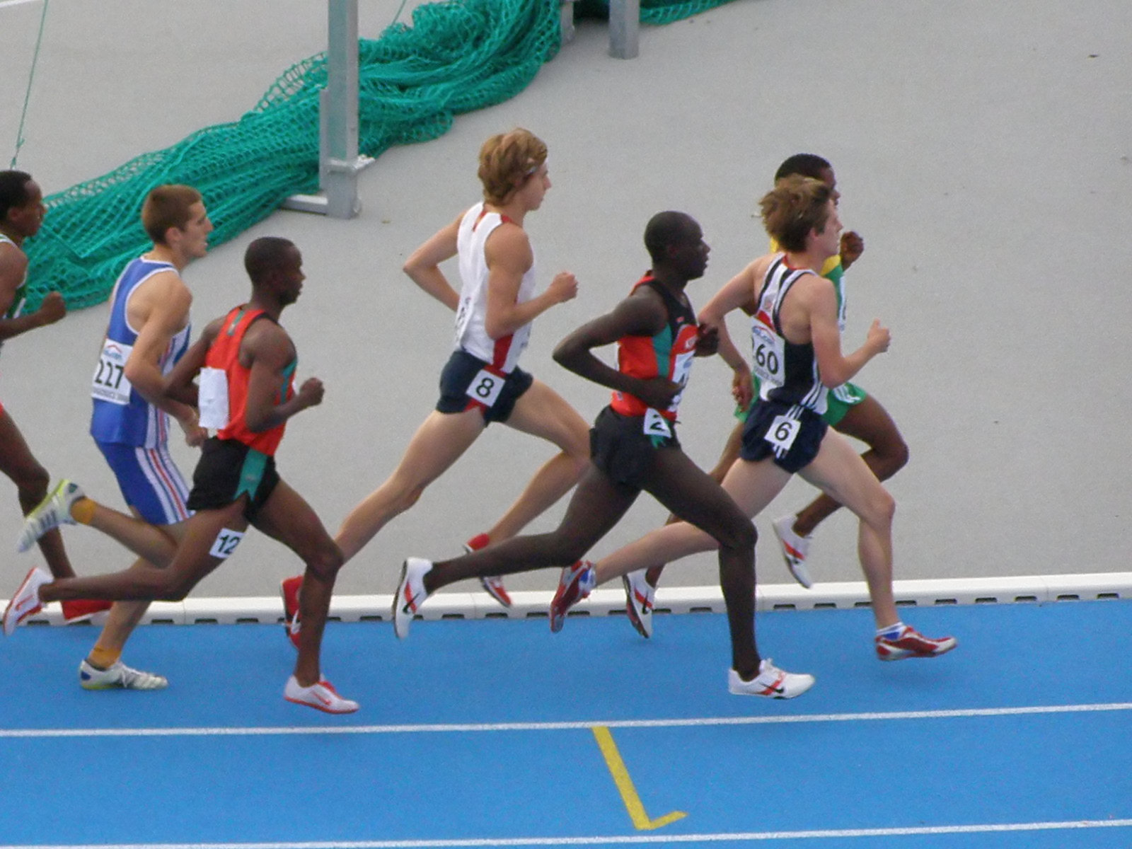 2008 World Junior Championships in Athletics - 1500 metres (final)